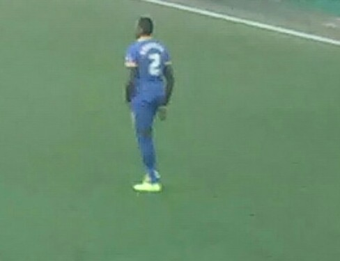 Jermaine Grandison playing for Shrewsbury Town against Tranmere Rovers in 2015